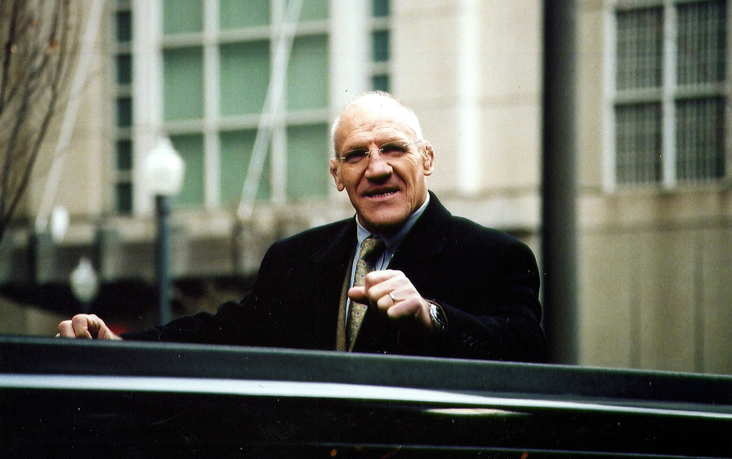 Wrestling legend Bruno Sammartino at the Celebrate the Season Parade in Pittsburgh, PA on 11-26-05